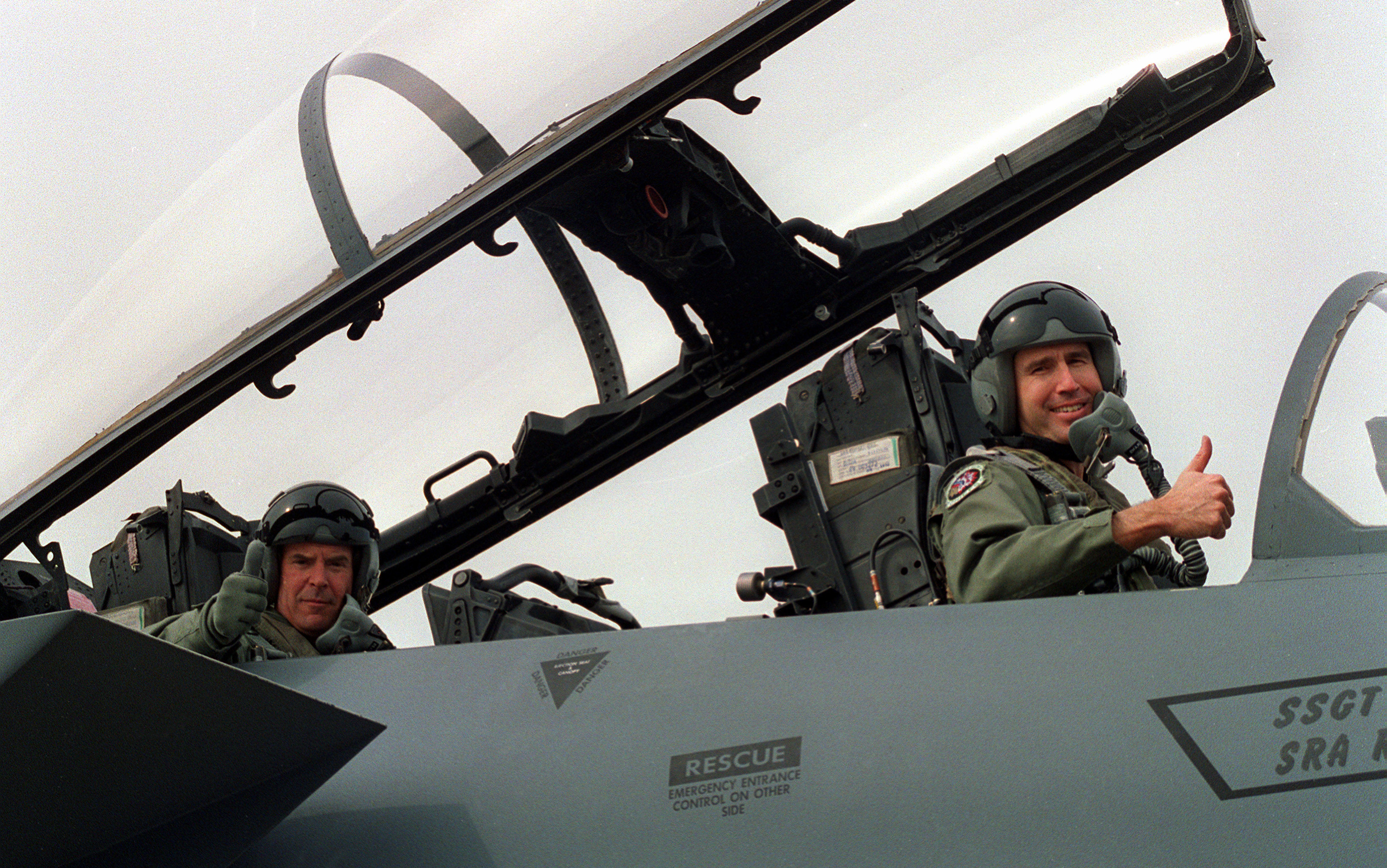 The thumbs up signal is given by Lt. Col. Charlie Heald (front seat) and Peter Jennings of ABC News in the back seat of the F-15E Strike Eagle at Seymour Johnson Air Force Base. The signal is given to notify everyone that everything is "A" all right for the incentive flight to begin.